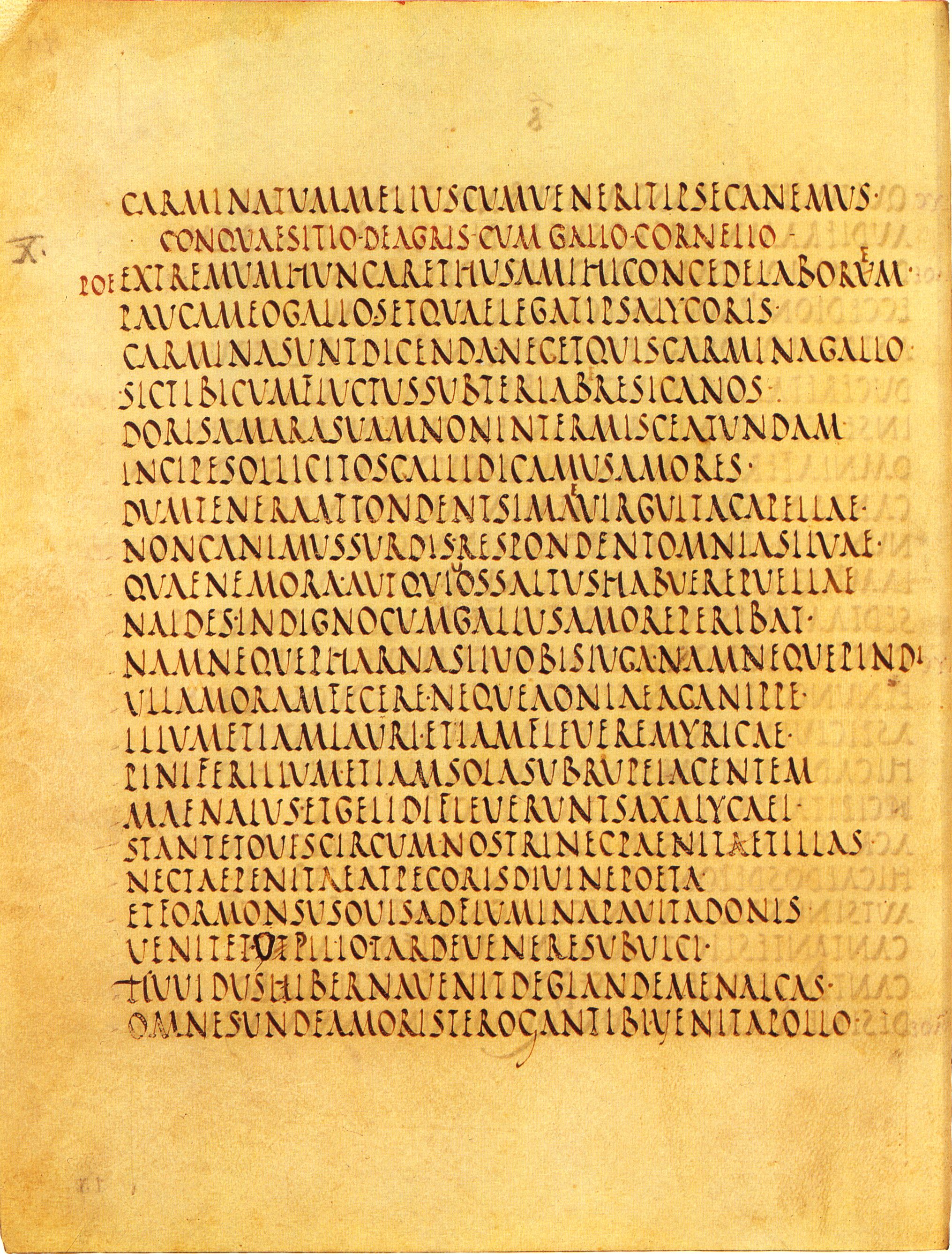 Virgil, Eclogues, in ms. Biblioteca Apostolica Vaticana, Vaticanus Palatinus lat. 1631, fol. 15v (“Vergilius Palatinus”).